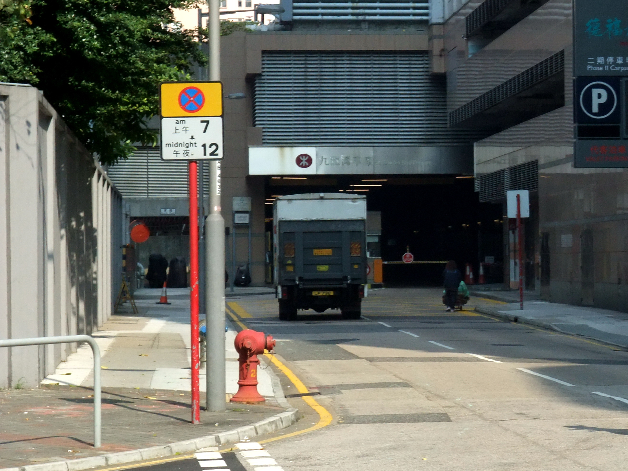 Mass Transit Railway (MTR) Kowloon Bay Depot, Kowloon Bay, Kowloon, Hong Kong.